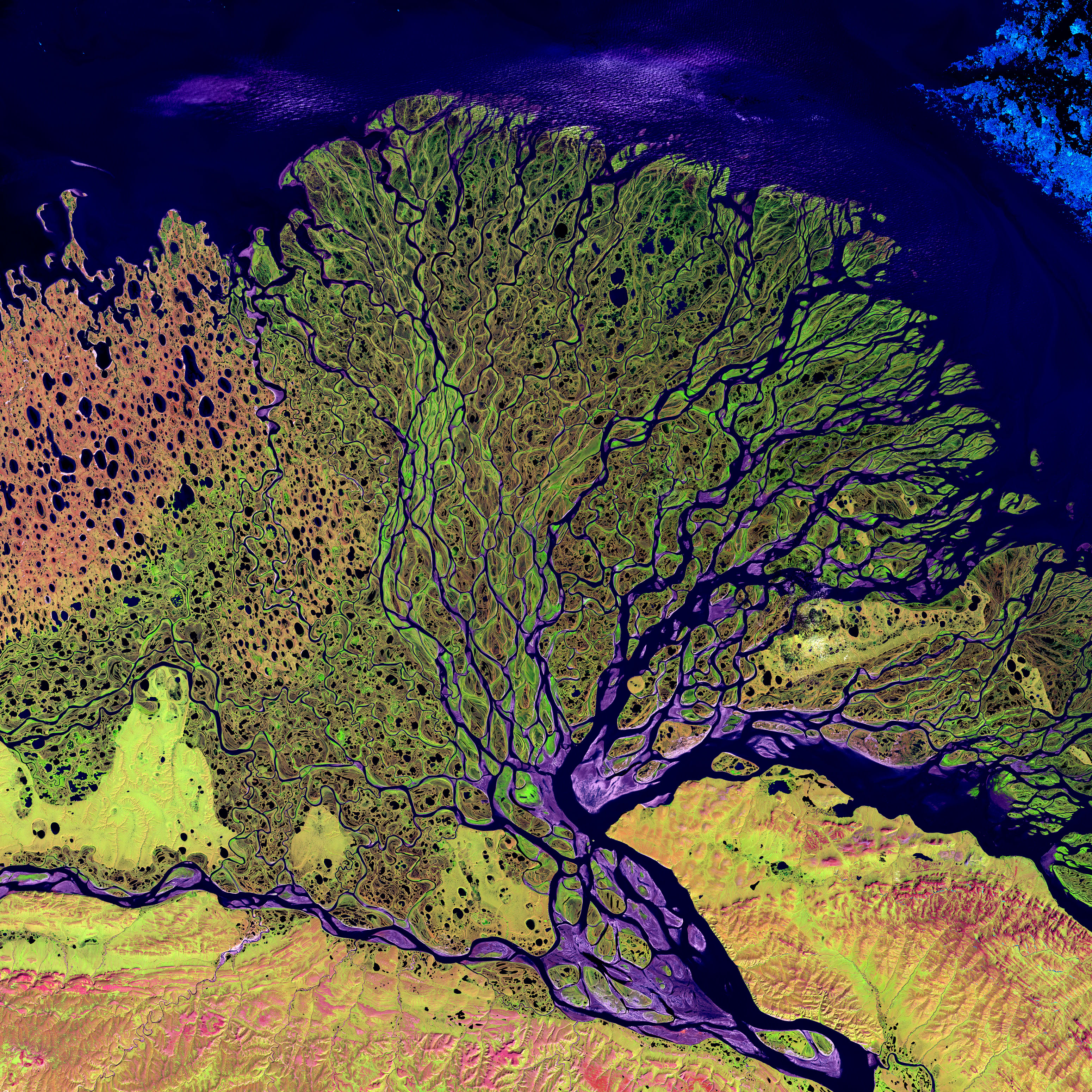 Lena River Delta. False-color composite image made using shortwave infrared, infrared, and red wavelengths.